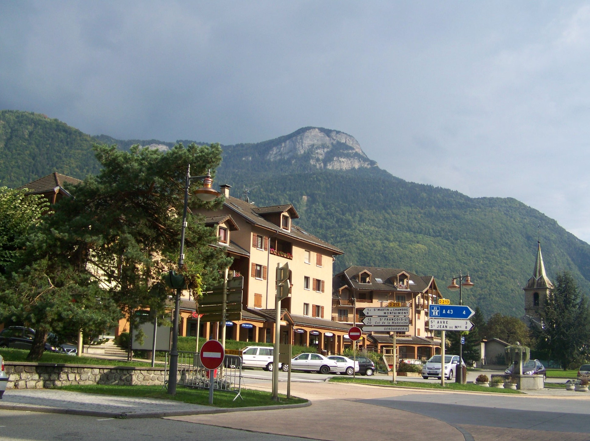 Commune of La Chambre city center, in Savoie, France.